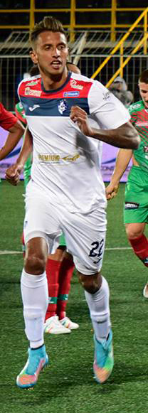 Giovanni Clunie playing for Cartaginés on January 14th, 2017 against Carmelita.